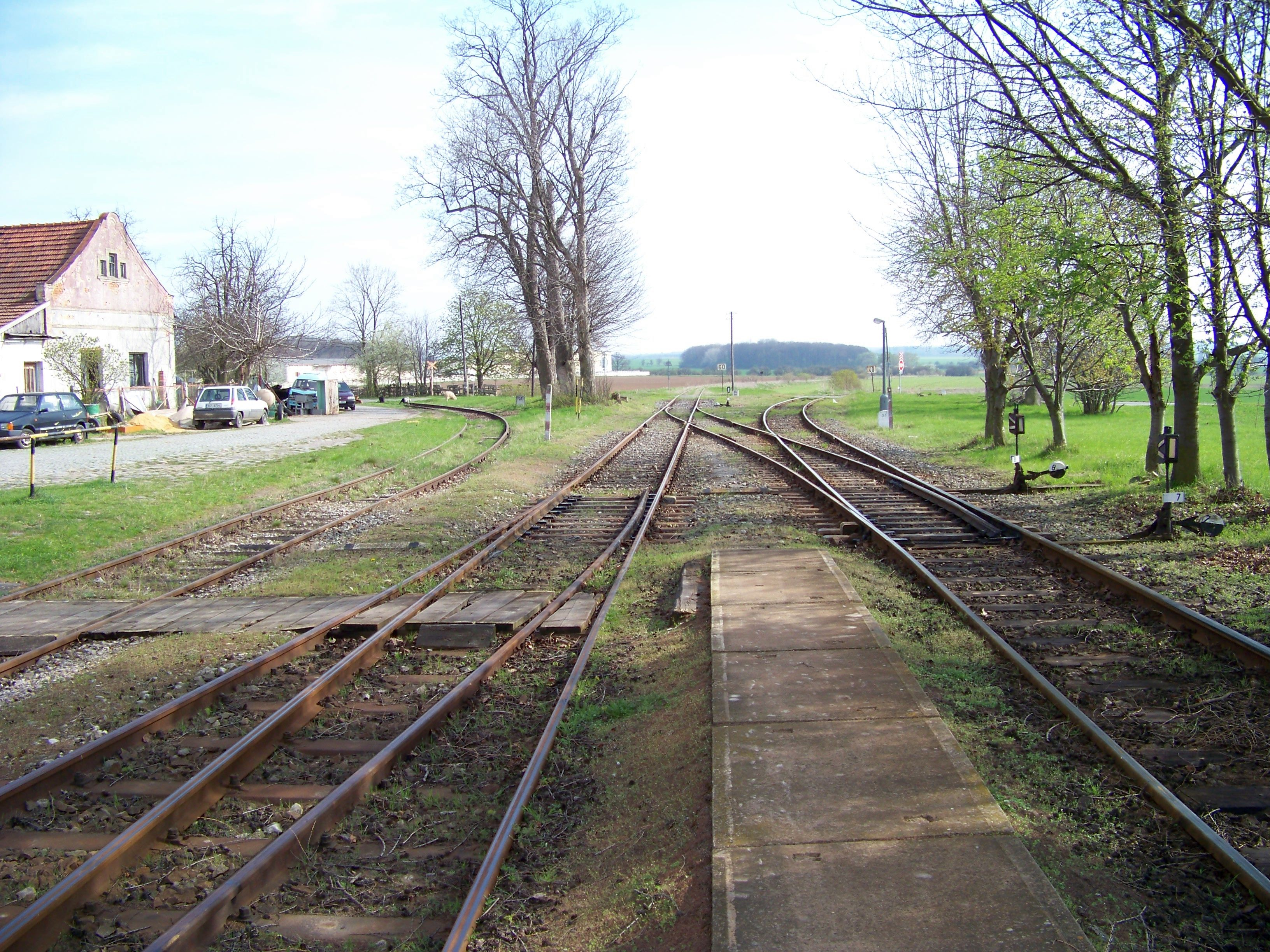 Svojšice-Bošice, Kolín District, Central Bohemian Region, the Czech Republic. The train station.